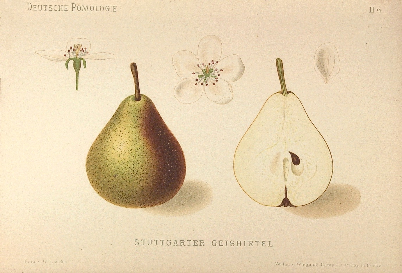 Page 24 from Deutsche Pomologie — Birnen, by Wilhelm Lauche, 1882. Published by Deutsche Pomologen-Vereins (German Pomological Society). Part of a series from the same book. The others can be found in Category:Deutsche Pomologie - Birnen Depicted pear cultivar: Stuttgarter Geishirtel